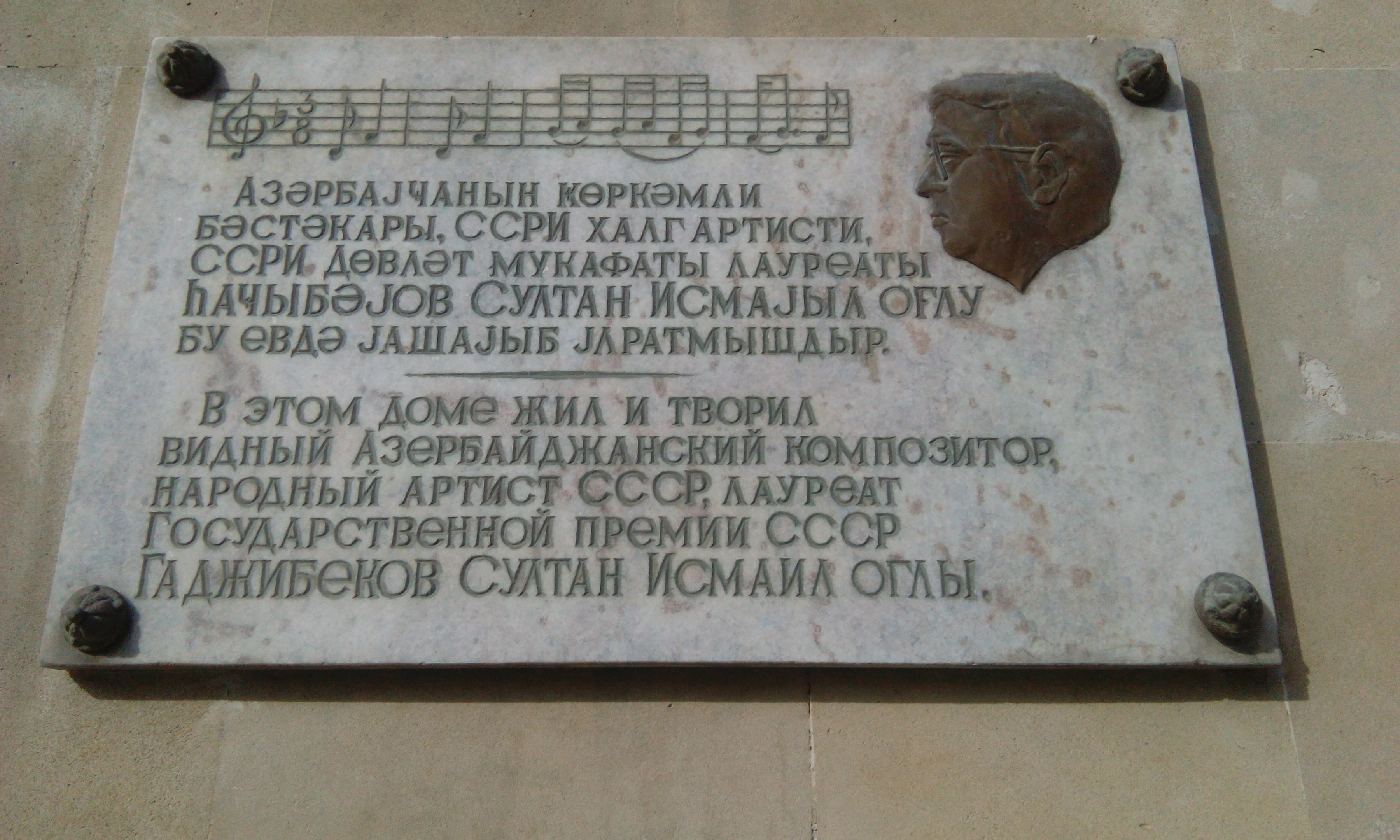 Plaque on building where Azerbaijani composer Soltan Hajibeyov lived in Baku, Azerbaijan.